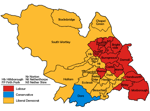 Ward map of Sheffield Council with political colouring for the 2000 election.